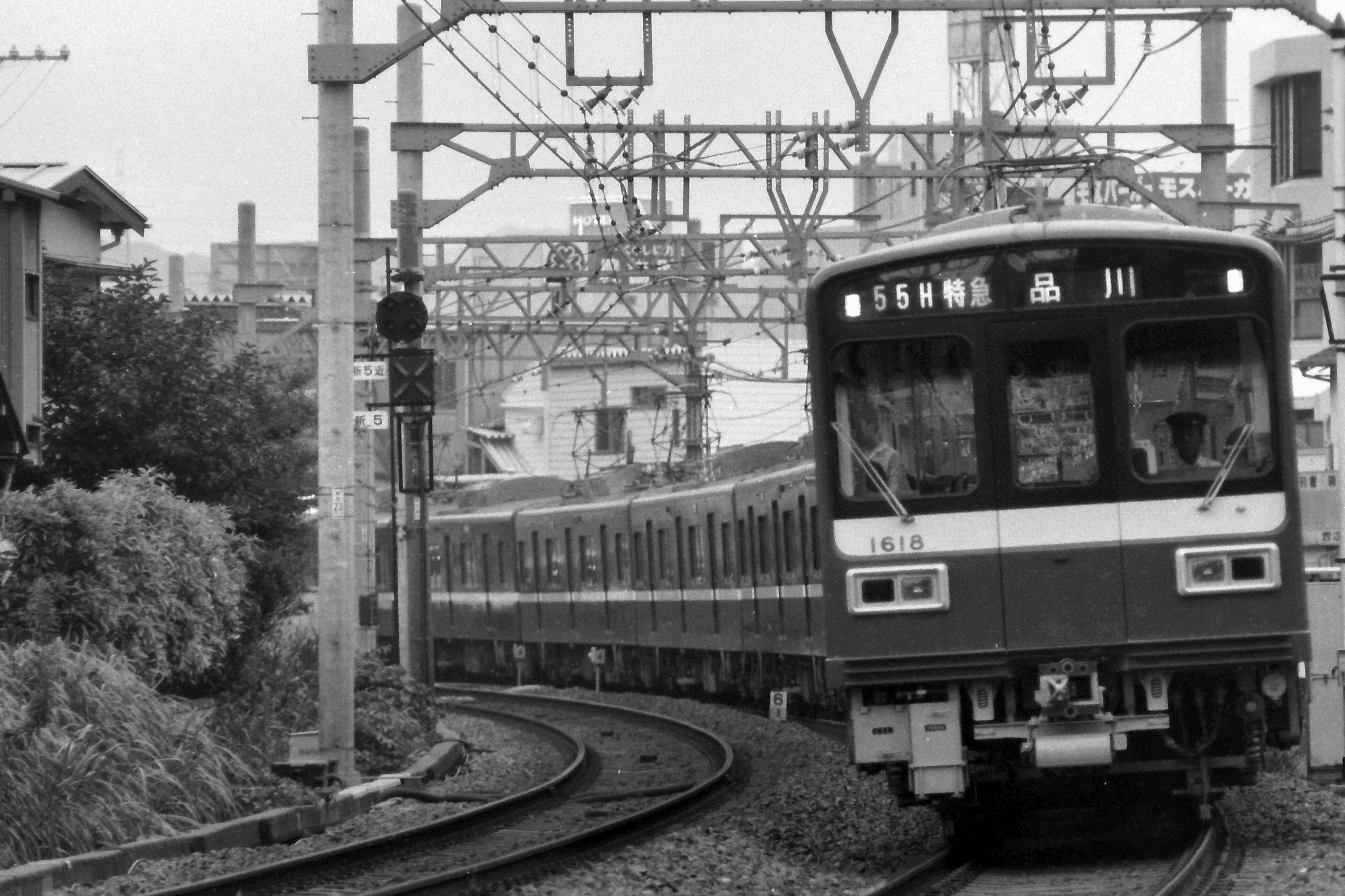 Keikyu unit 1613 running between Keikyu Kurihama and Kita Kurihama. The unit was all axle drive and had 6 pantographs. The train, No. 1755H was originally operated with series 2000.